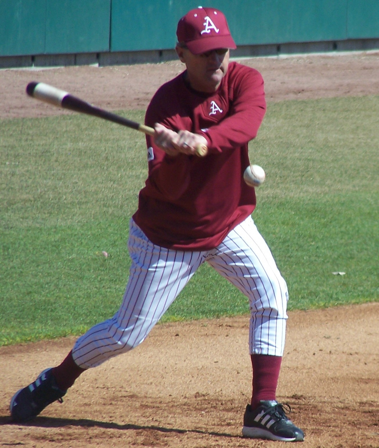 This is a picture of Dave van Horn taking infield as the head coach of the Arkansas Razorbacks. This picture was taken on March 19, 2008 in Lincoln, Nebraska.